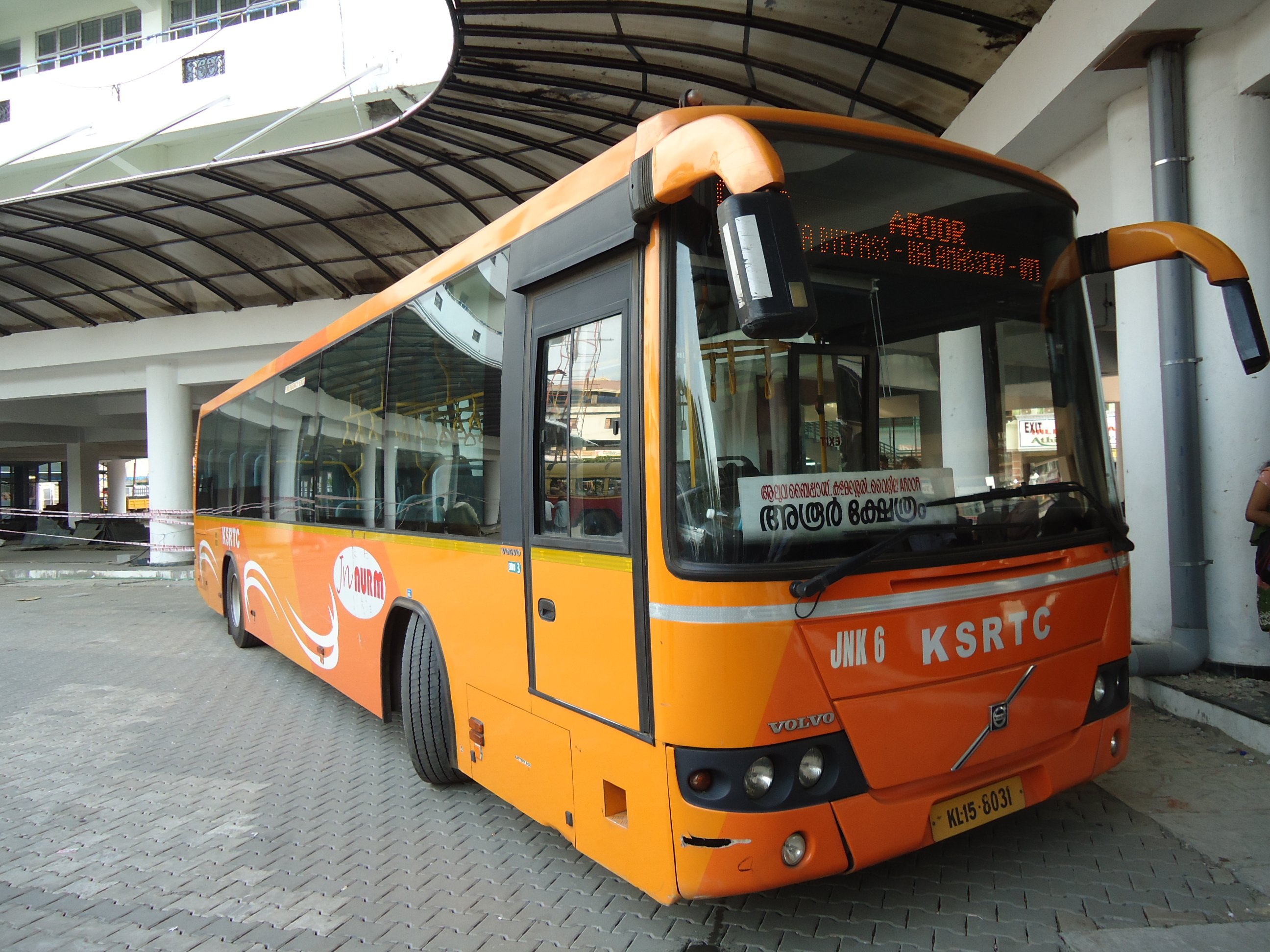 This media file is uploaded with Malayalam loves Wikimedia event.